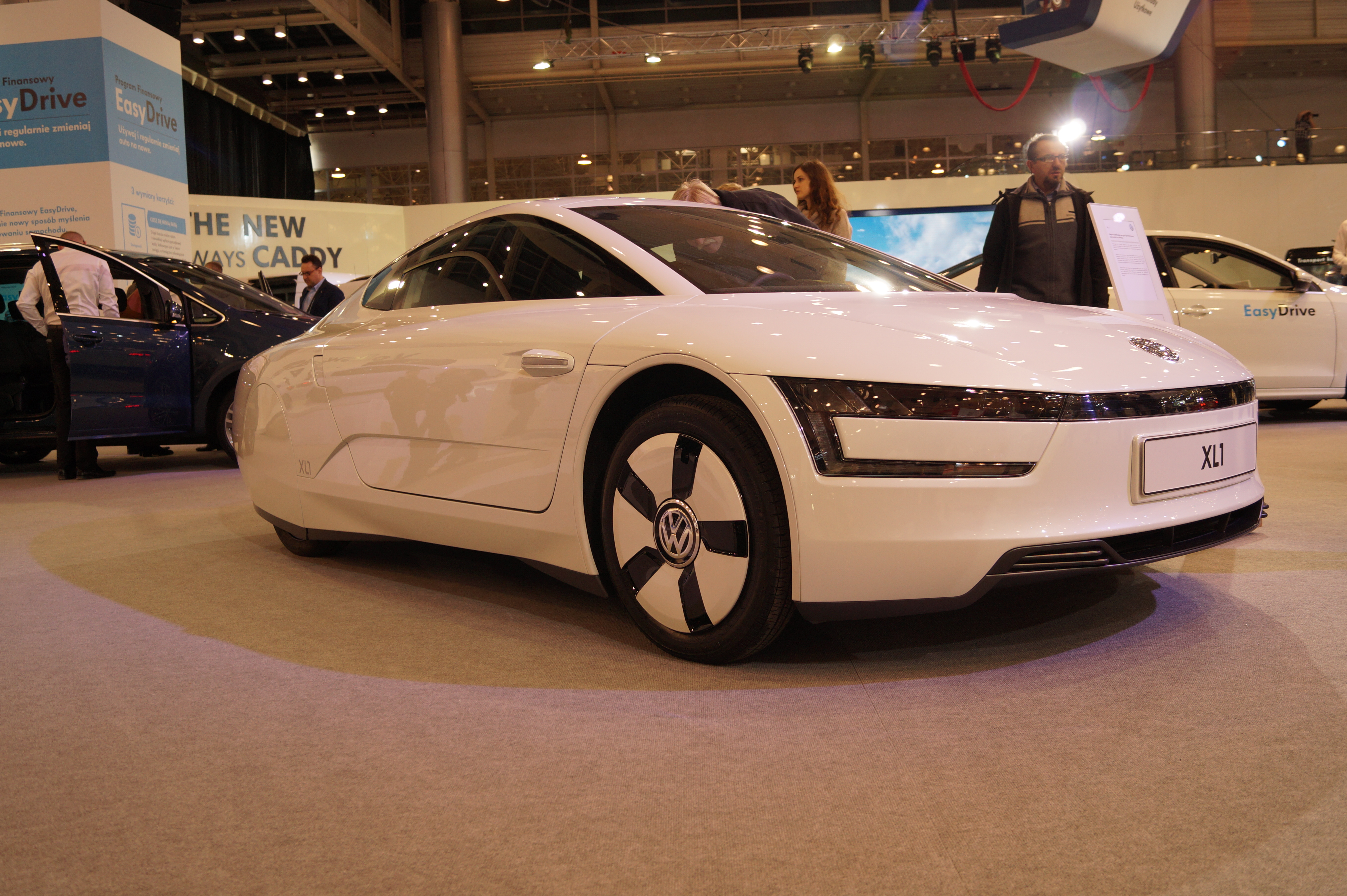 The making of this document was supported by Wikimedia Polska Association, within Wikigrant no. WG 2015-19. English | polski | +/− Przód Volkswagena XL1 na Motor Show Poznań 2015